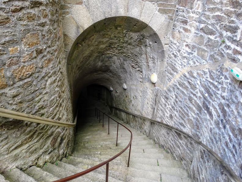 Брестский замок лестница в подвал